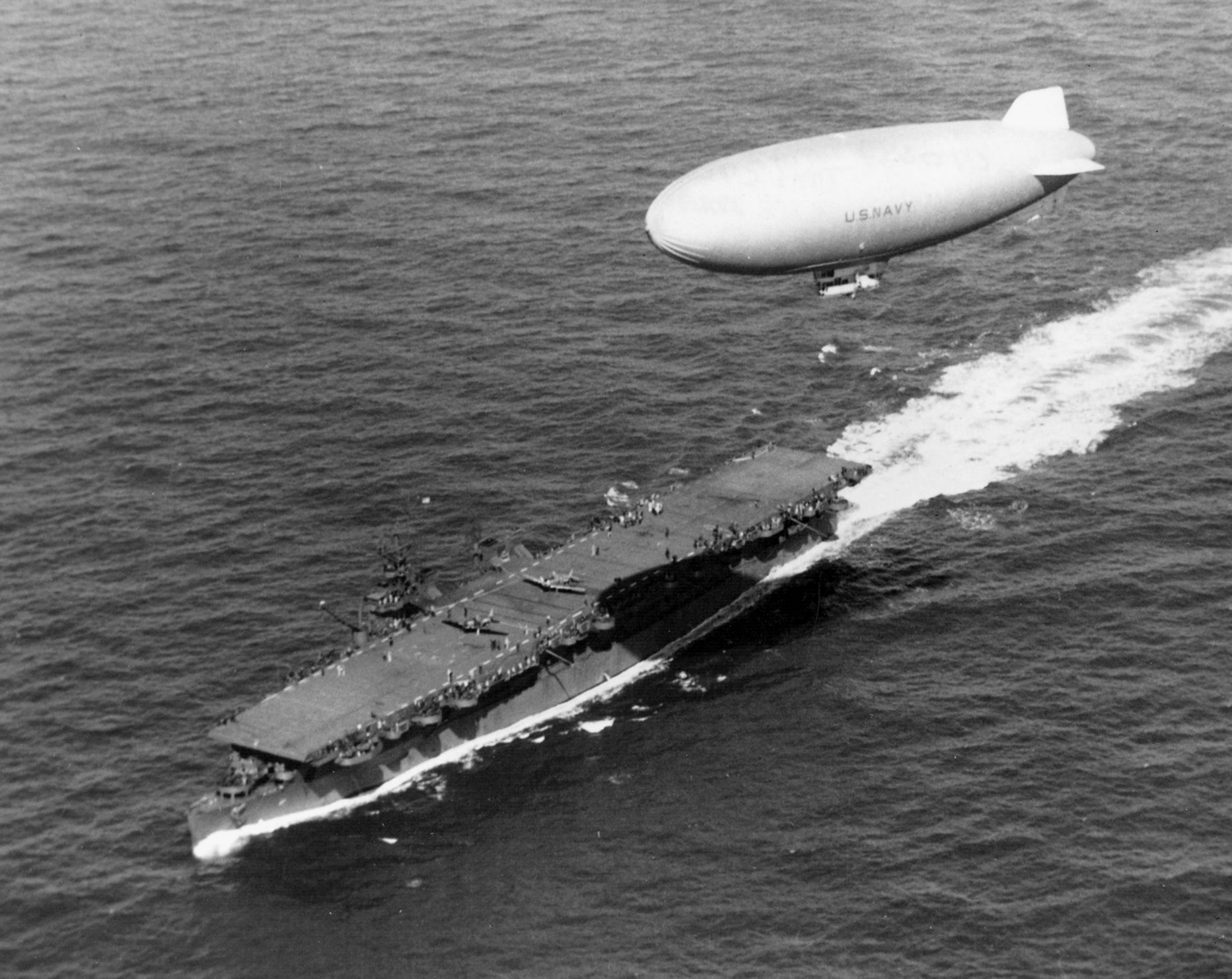 A U.S. Navy K-class airship of Blimp Patrol Squadron ZP-14 pictured in flight over the light aircraft carrier USS Langley (CVL-27) as she steams in the waters off Cape Henry, Virginia (USA), with two North American SNJ Texan training planes on her flight deck, 6 October 1943.